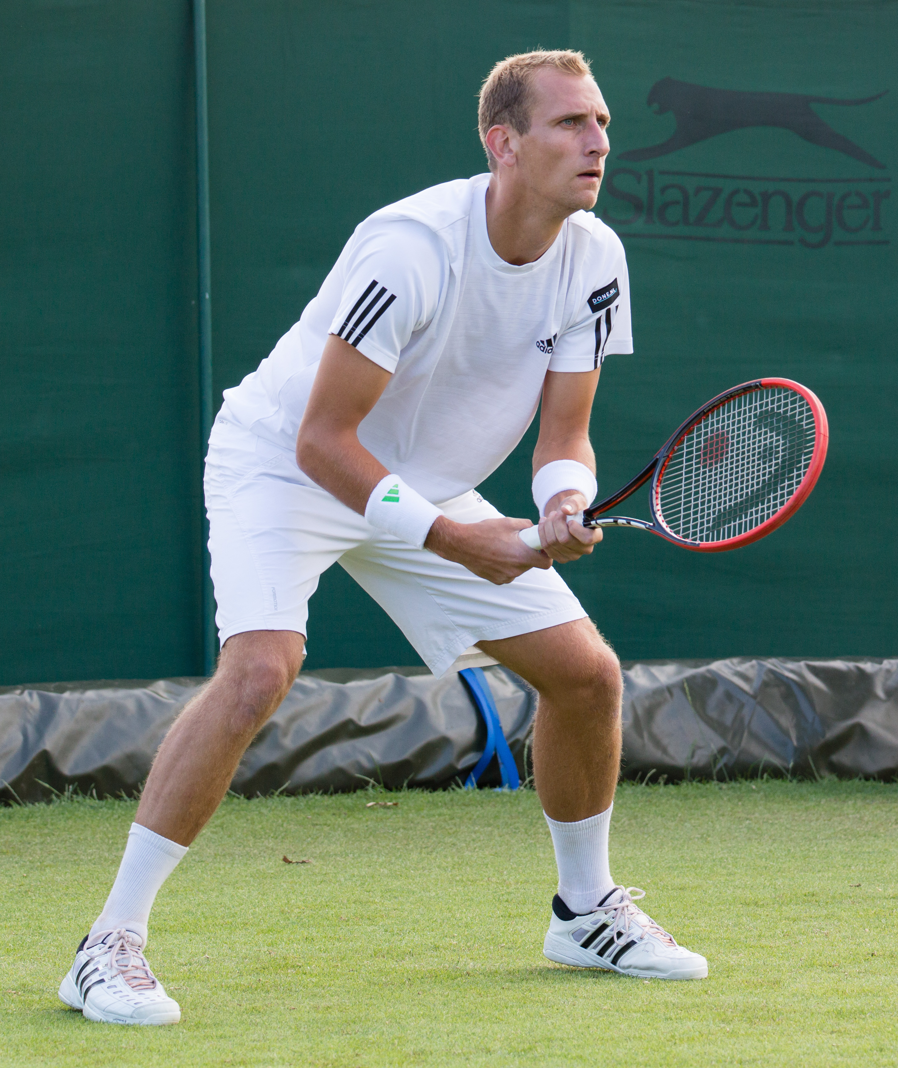 Thiemo de Bakker competing in the first round of the 2015 Wimbledon Qualifying Tournament at the Bank of England Sports Grounds in Roehampton, England. The winners of three rounds of competition qualify for the main draw of Wimbledon the following week.